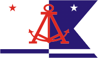 Flag of Alameda, California